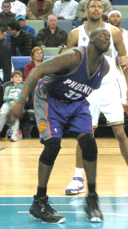 Cropped image Image:Shaq neworleans.jpg from Image:Shaq neworleans.jpg Photo by Tim Bekaert